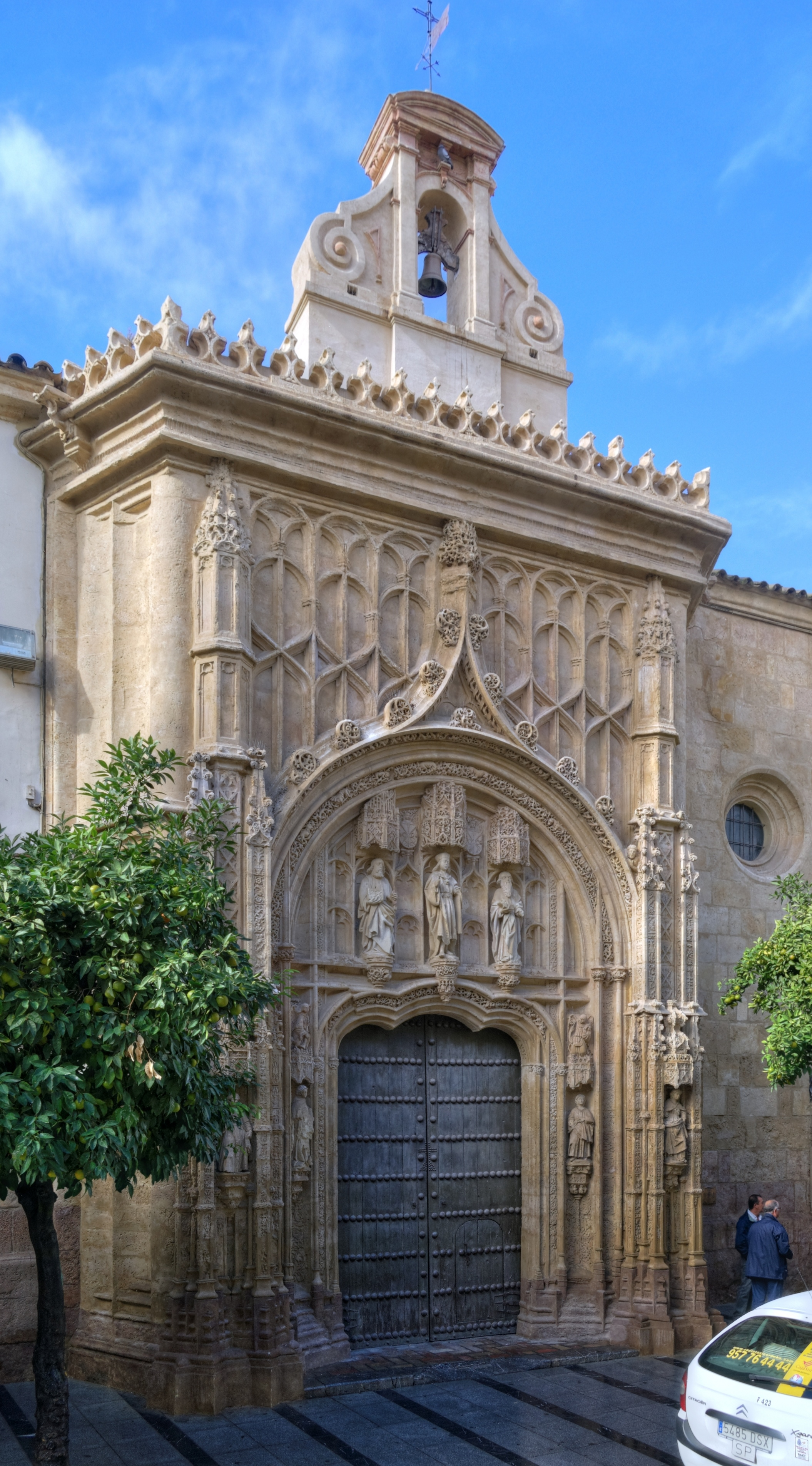 Spain, Cordoba, Hospital de San Sebastián